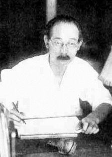 Shin Hasegawa (1884–1963)